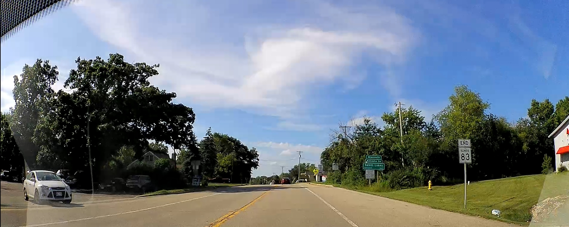 Illinois State Route 83's northern terminus at the Wisconsin state line. 2019-07-01 16:57 CDT, captured via dash camera.